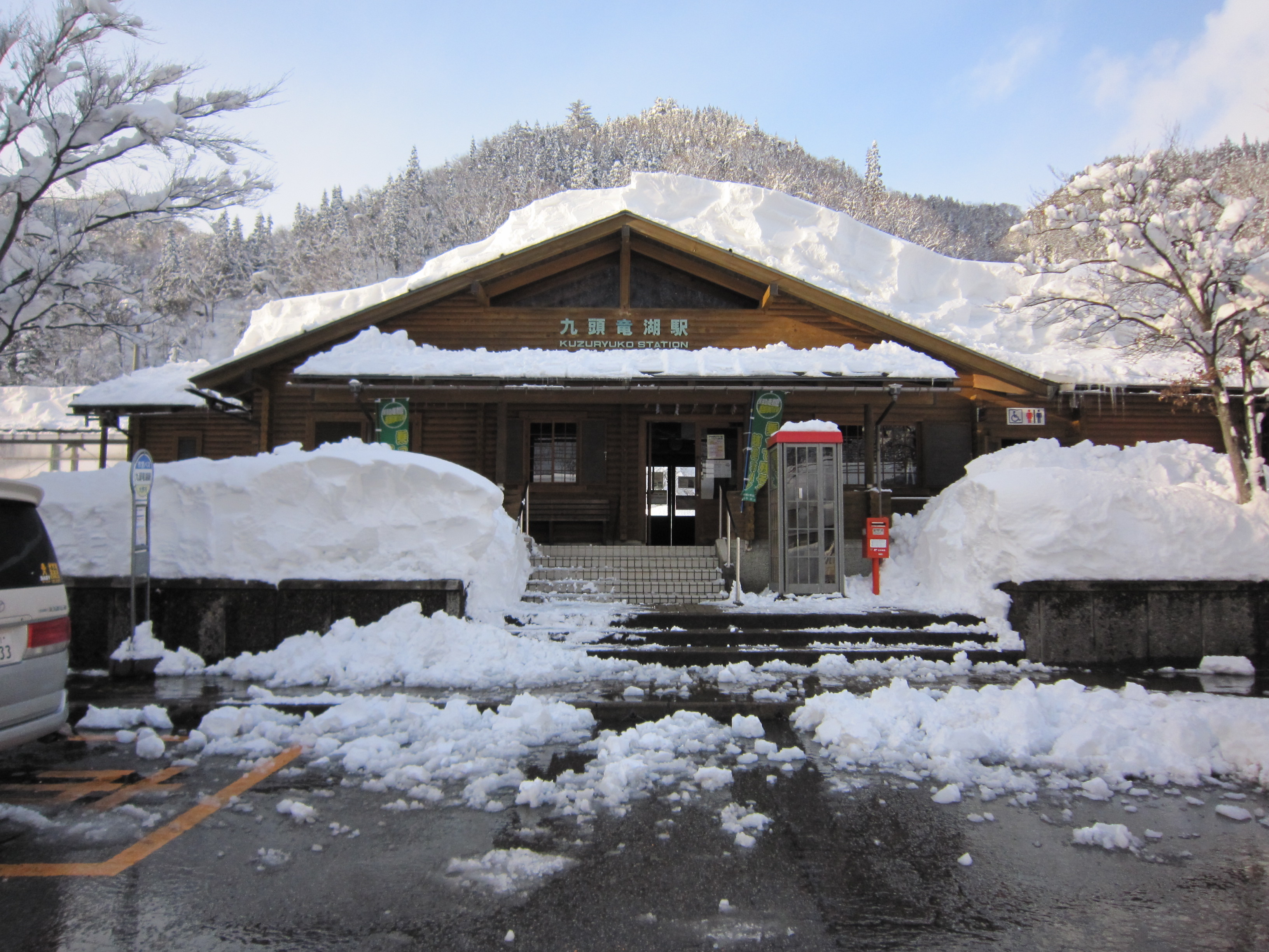 Kuzuryuko Station in winter